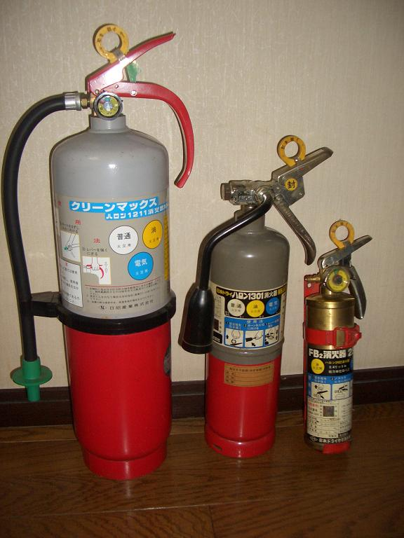 Halon Fire extinguisher 1211,1301,2402